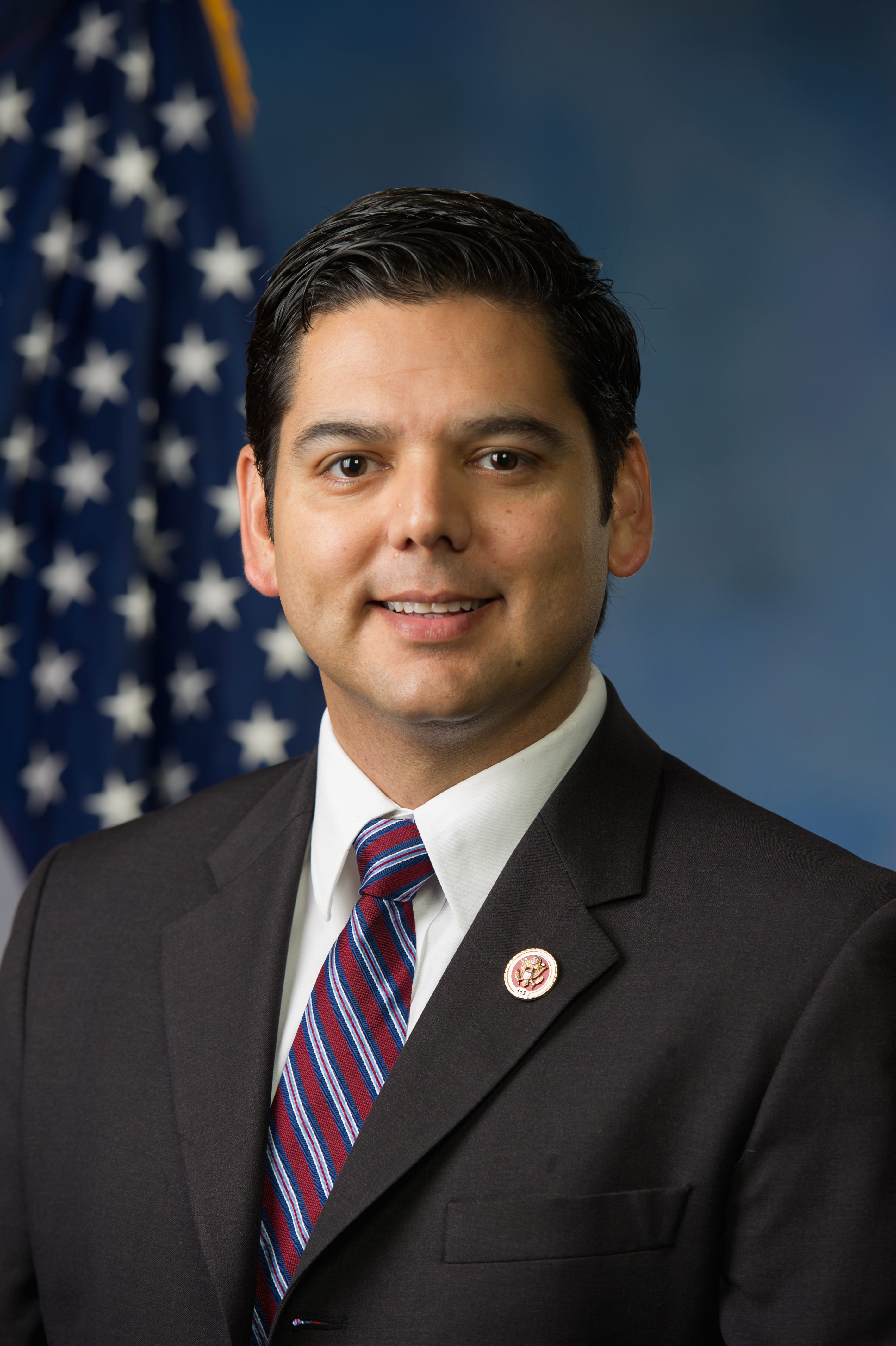 Official portrait of Congressman Raul Ruiz